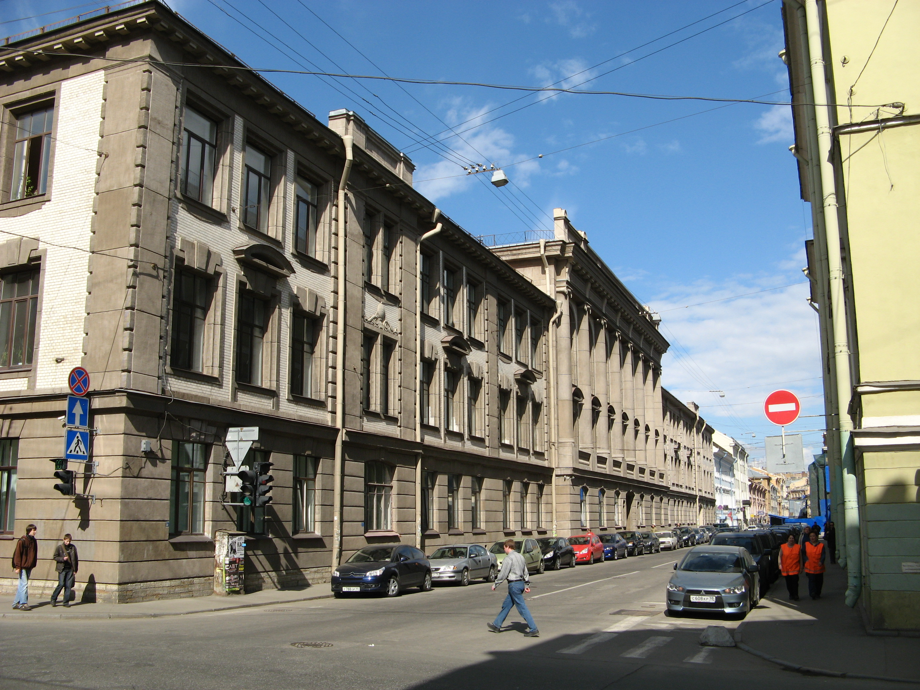 Kazanskaj street, 27 (Saint-Petersburg)